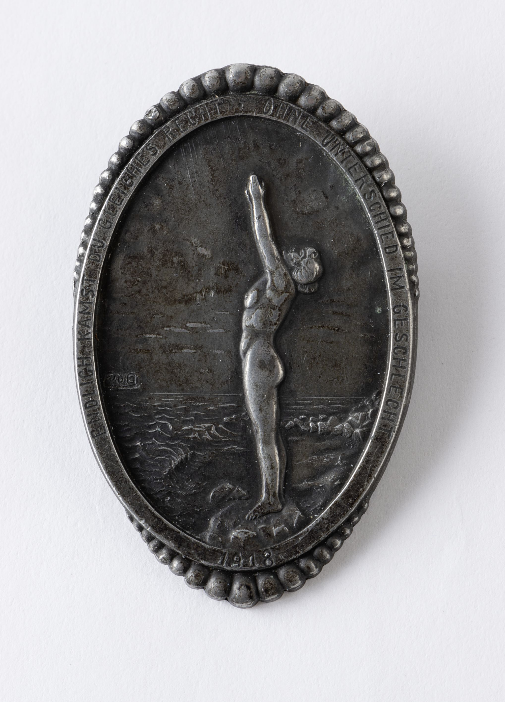 Commemorative badge for introduction of women's suffrage in Germany. Front view. Badge, created in Pforzheim, 1919, metal. Photo of object in repository of Archiv der deutschen Frauenbewegung (Archive of German Women's Movement), Kassel. Photographer: Horst Ziegenfusz on behalf of Historisches Museum Frankfurt (Historical Museum Frankfurt). Published in Dorothee Linnemann (ed.): Damenwahl! 100 Jahre Frauenwahlrecht. Begleitbuch zur Ausstellung. Societäts-Verlag, Frankfurt am Main 2018, ISBN 978-3-95542-306-3, p. 148.